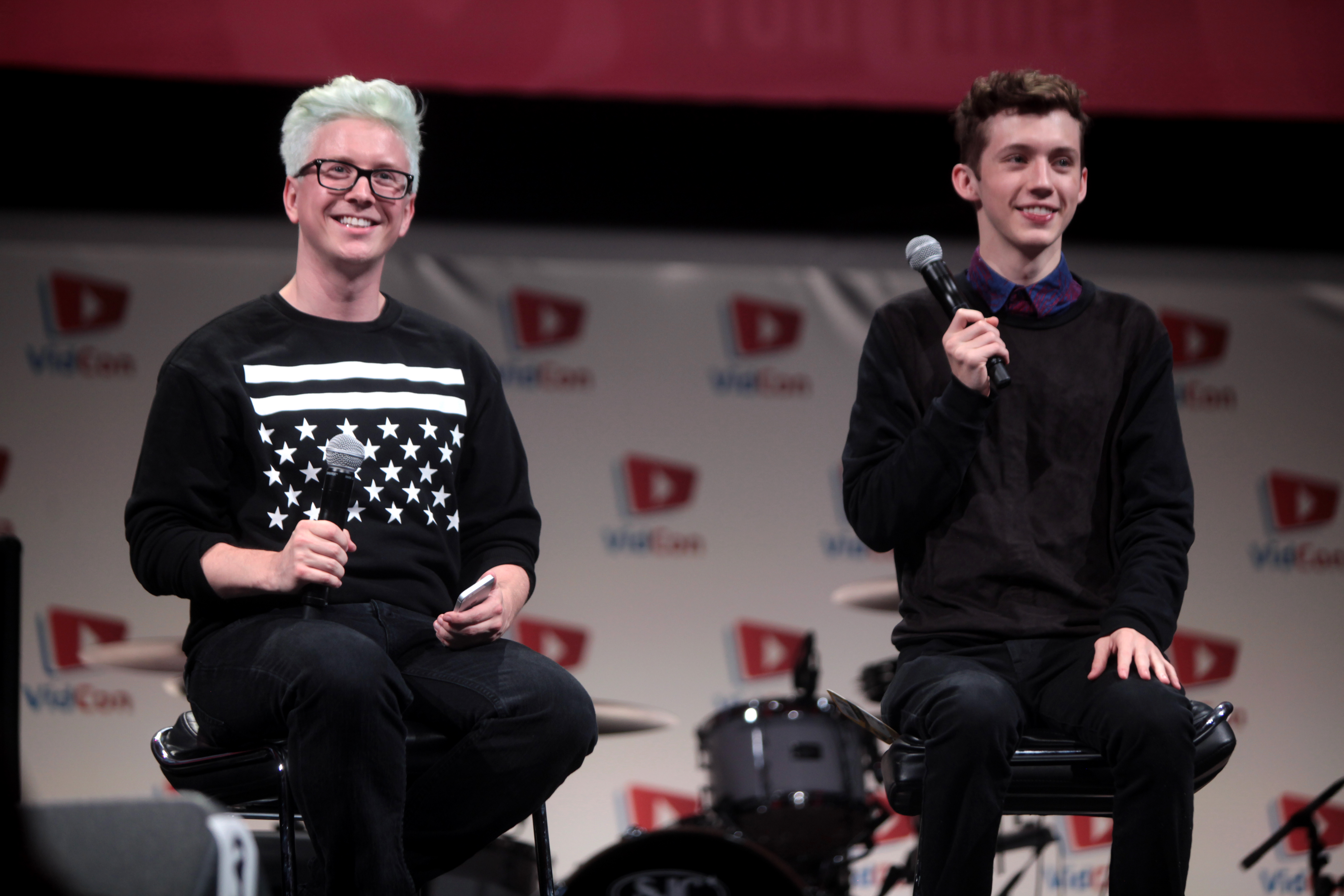 Tyler Oakley and Troye Sivan speaking at the 2014 VidCon at the Anaheim Convention Center in Anaheim, California.